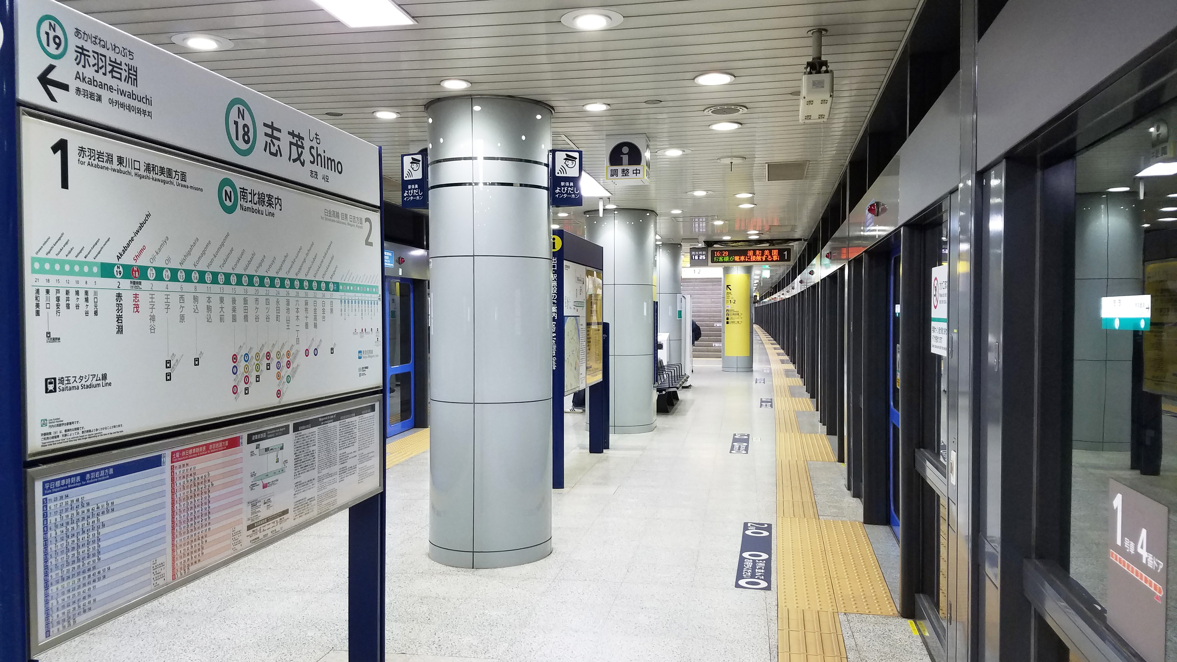 The platform at Shimo Station on the Tokyo Metro Namboku Line in Kita city, Tokyo, Japan